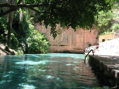 Author: Peter Garland Photo taken by myself in September 2004